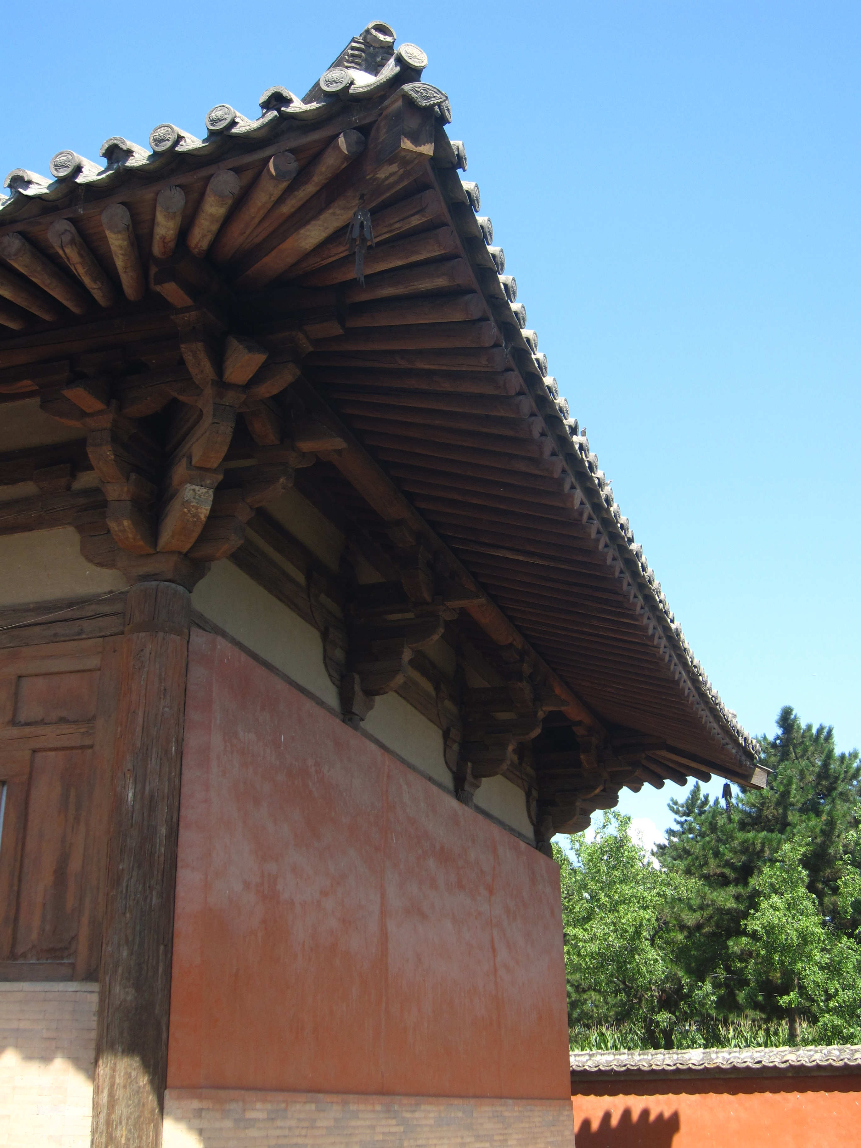 A side closeup of Nanchan Temple near Wutaishan, China